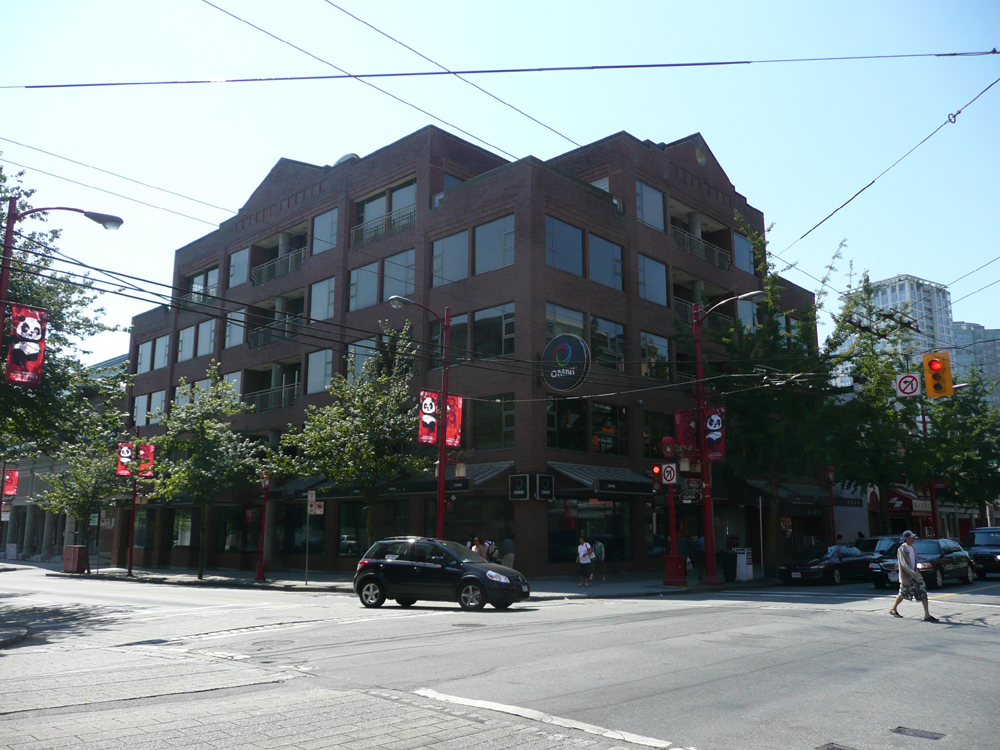 The OMNI BC building (Channel M Centre) in Vancouver's Chinatown.